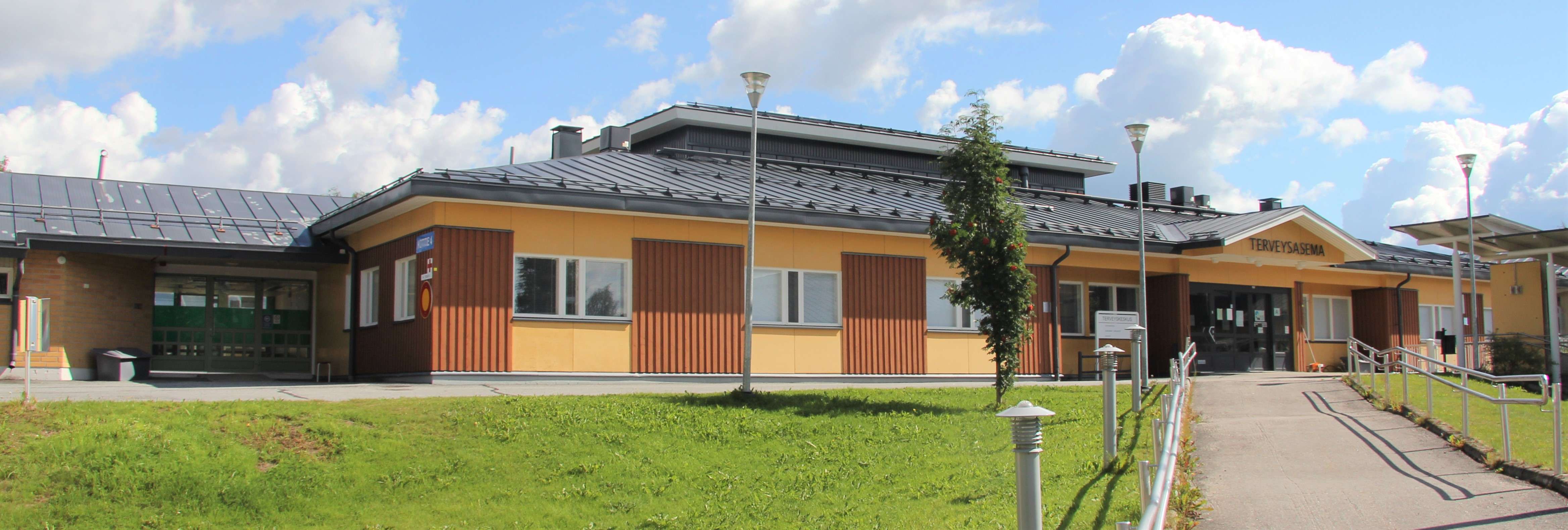 Rautavaara Health Station is a public health center in Rautavaara, Finland.